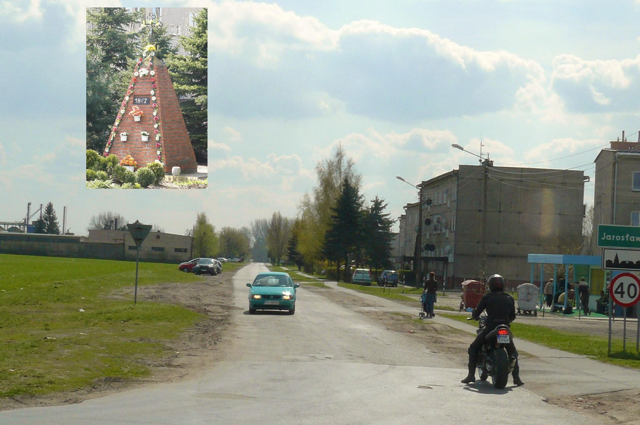 Jaroslawiec, Wlkp., PL.